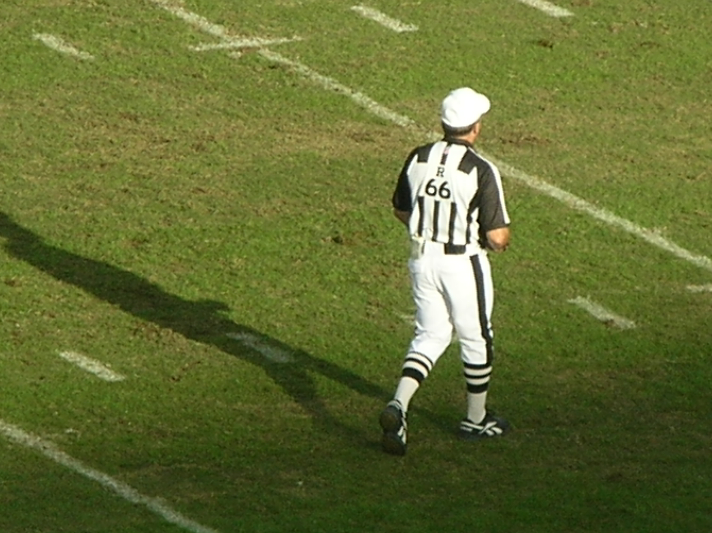 Referee Walt Anderson on the field during a game at the Oakland Coliseum between the Oakland Raiders and Atlanta Falcons. The Falcons won 24-0.